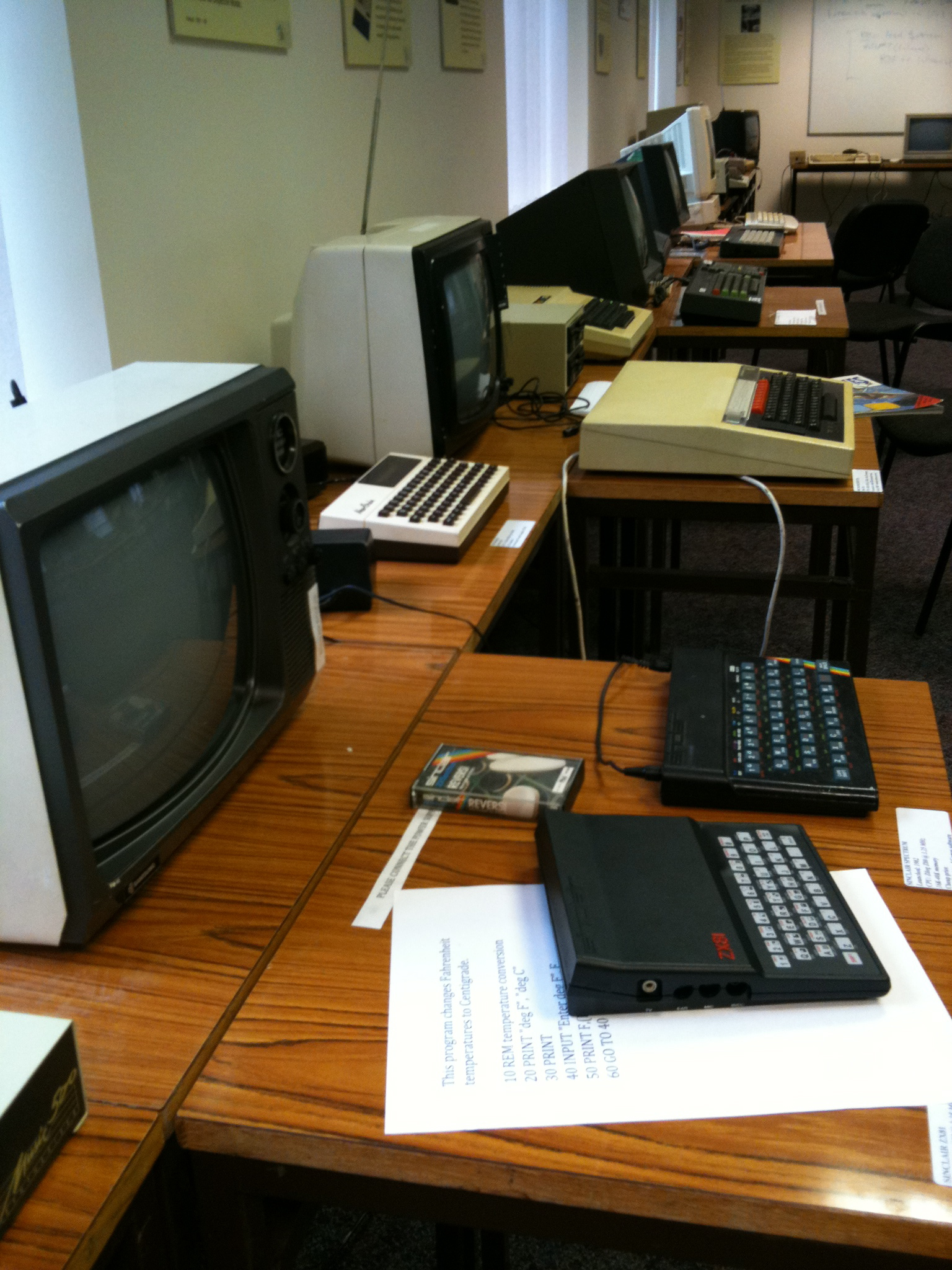 Display at The National Computer & Communications Museum in Galway Ireland